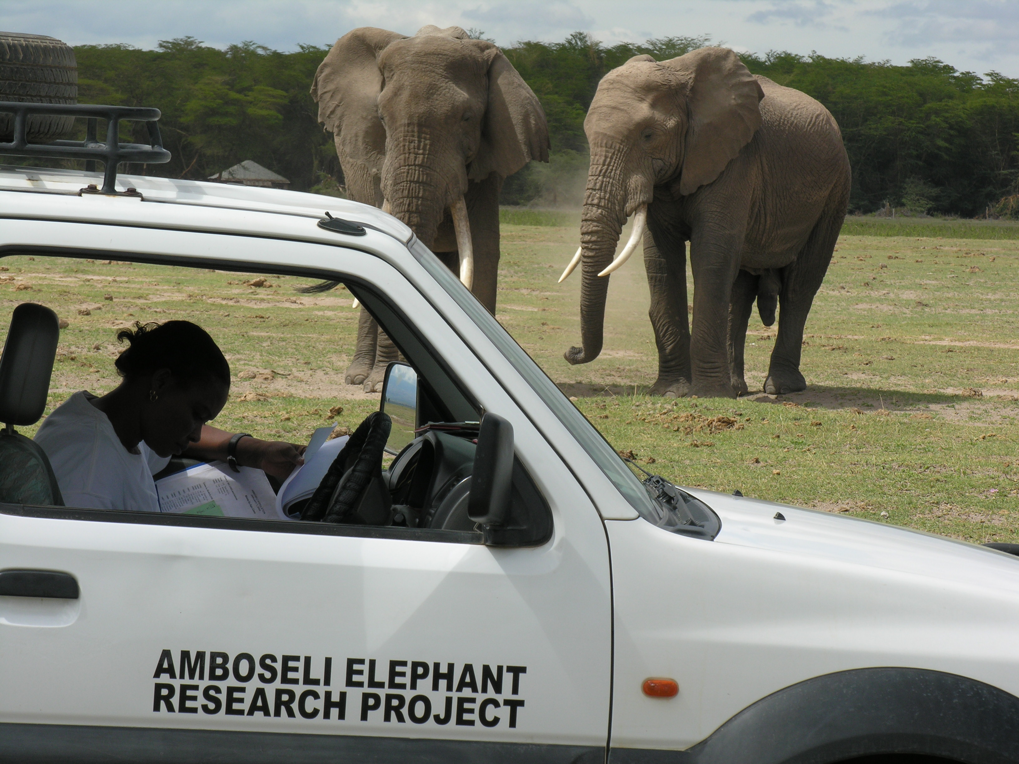 Amboseli Elephant Research Project has studied elephants for forty years and made key discoveries about elephant intelligence and social relationships. Credit: Patrick Chiyo/Duke University